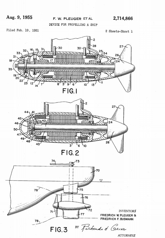 Device for propelling a ship US 2714866 A